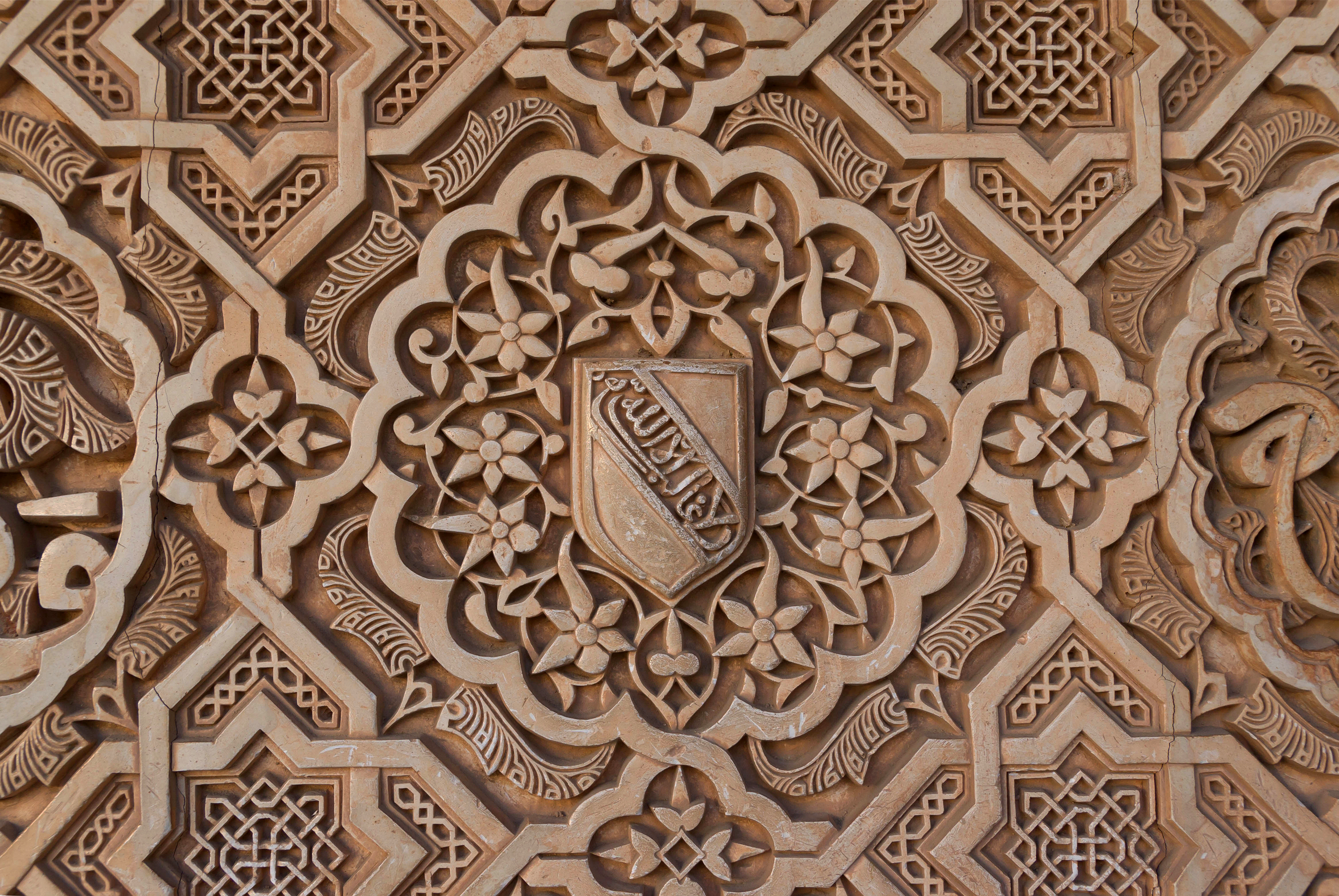 Escutcheon with the nasrid kings motto, Wa lā gāliba illā-llāh (ولا غالب إلا الله),And nobody is victorious, but God, stucco on the walls of the Alhambra, 13th-century, Granada, Spain.